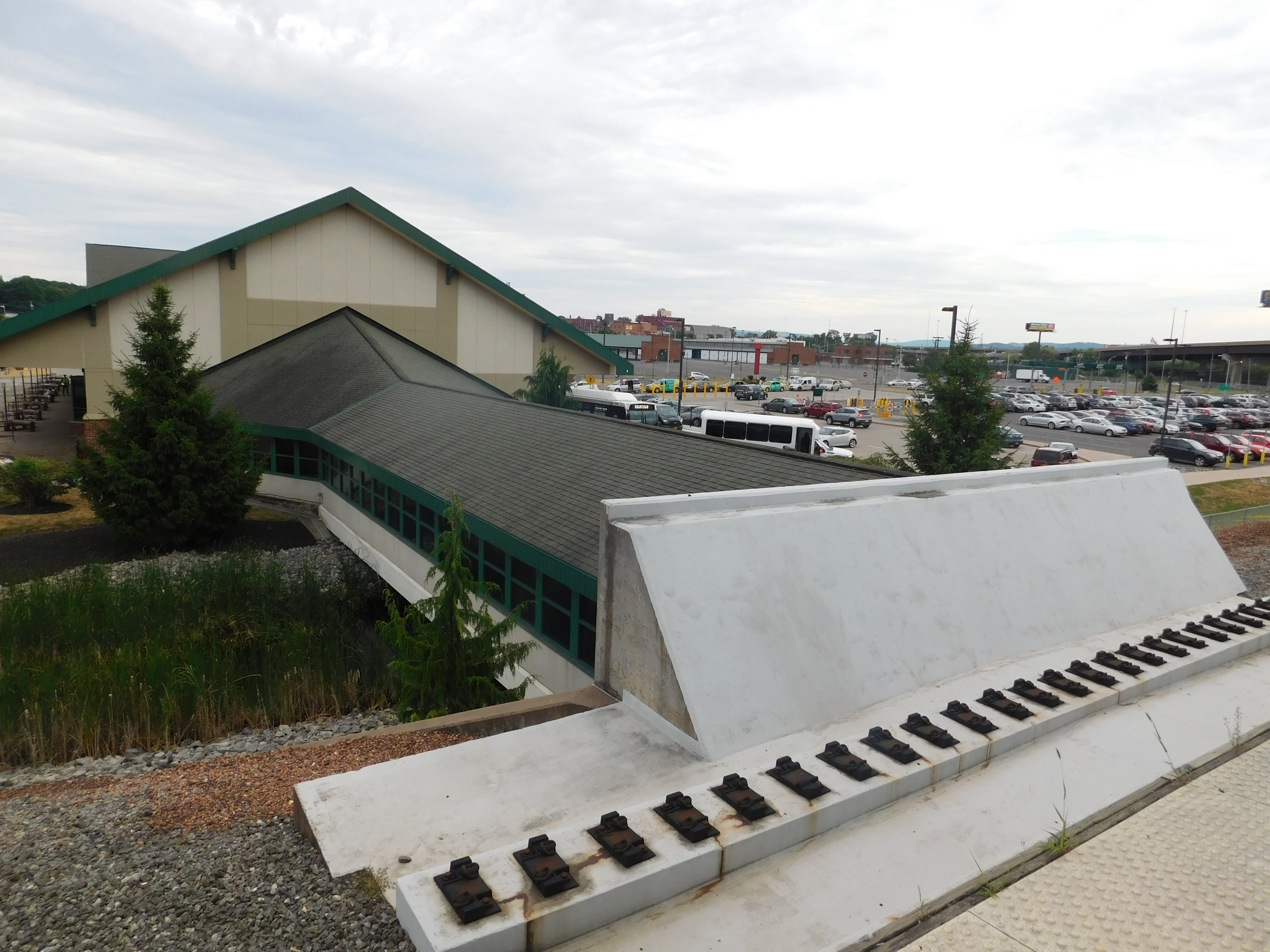 The pedestrian passage at Syracuse station in July 2016. In the foreground is uncompleted trackbed for the defunct OnTrack service, which never reached this station.